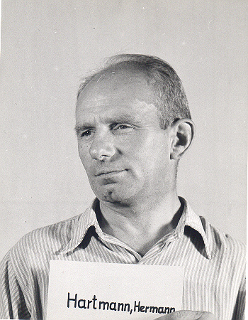 Hermann Hartmann as a witness during the Nuremberg Trials.